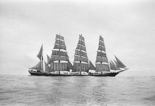 Original description at source: "The lee side of the 'Parma'" Reproduction ID: N61359 Maker: Alan Villiers Date: 1932–33 Villiers collection"